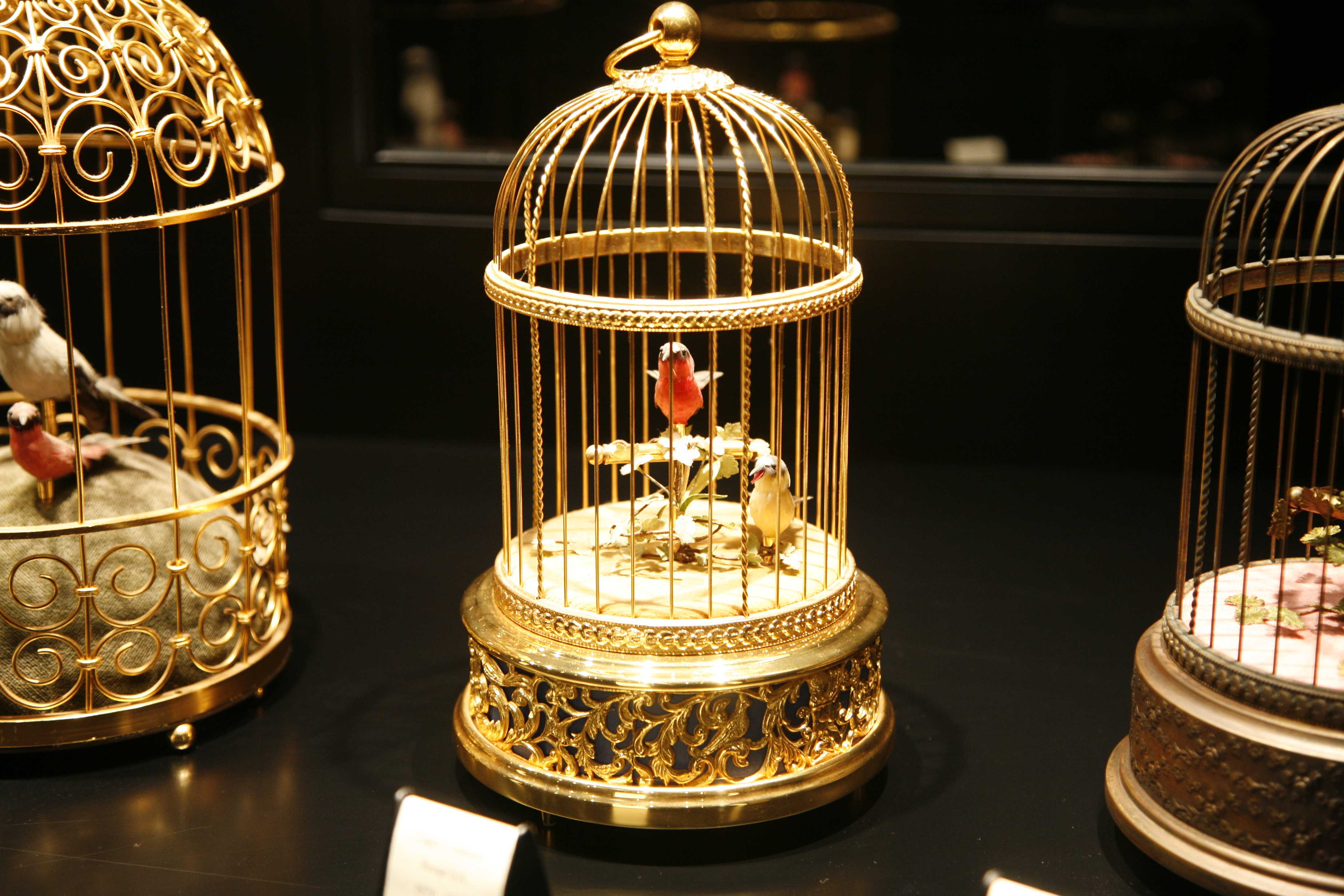 CIMA museum (Centre International de la Mécanique d'Art)